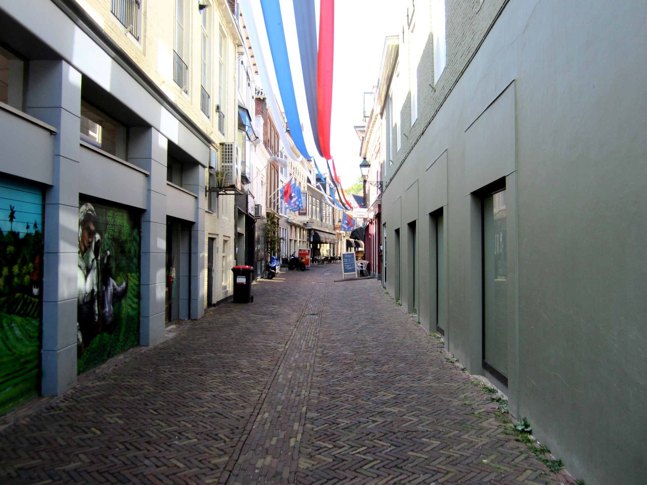 Weerd (Frisian: Weard), a street in Leeuwarden/Ljouwert, Friesland, the Netherlands.